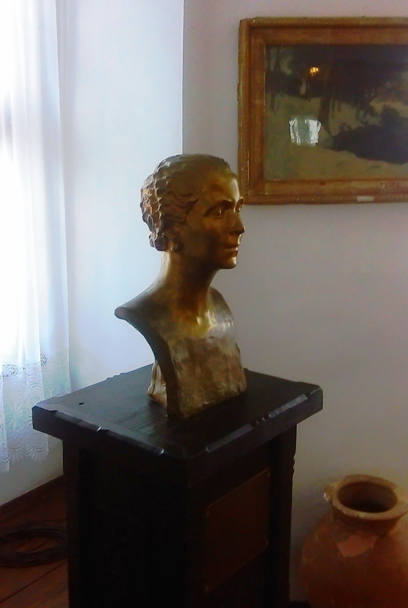 A bust in the Architectural-Park Complex “The Palace” in Balchik